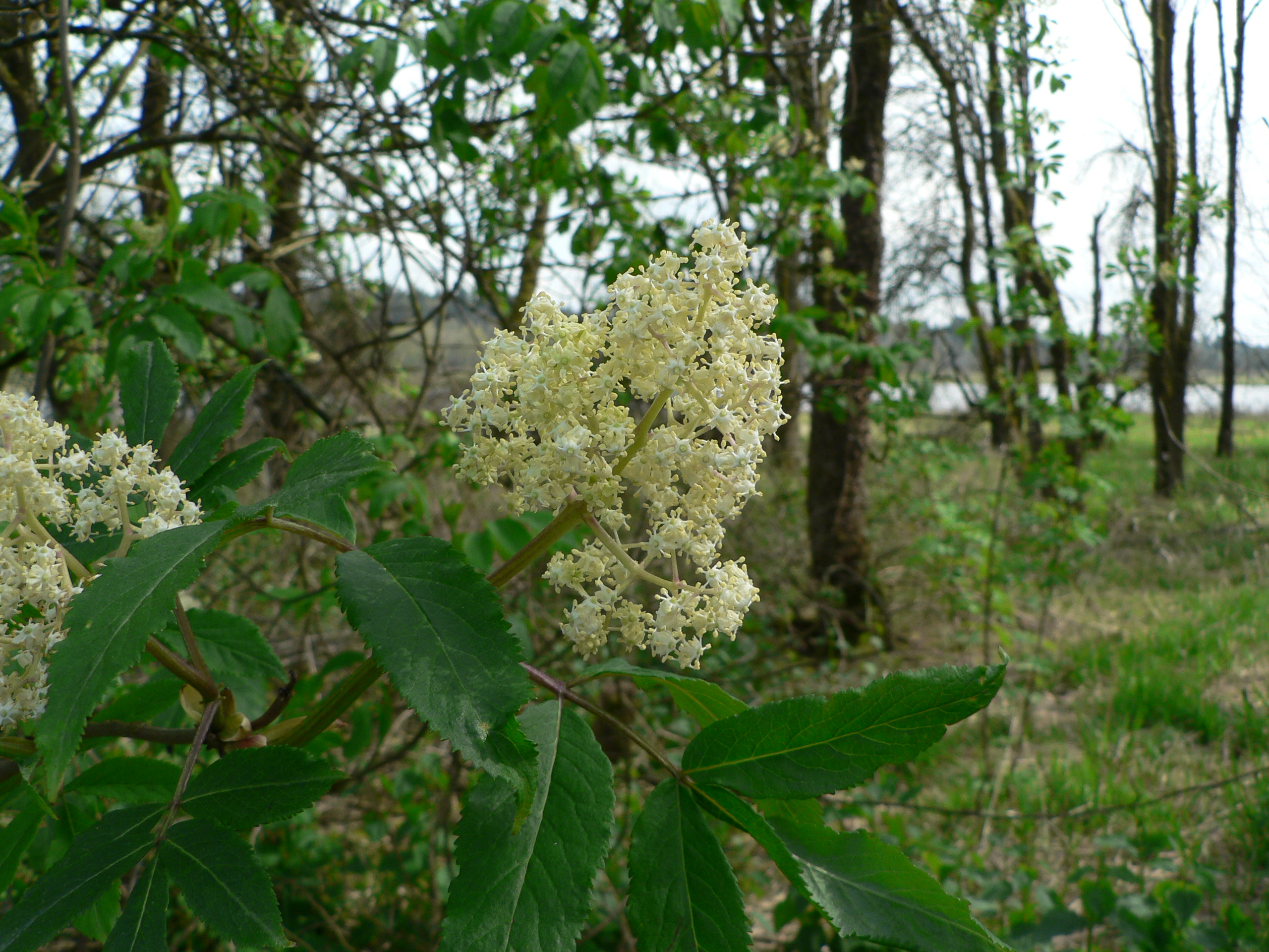 Red Elderberry